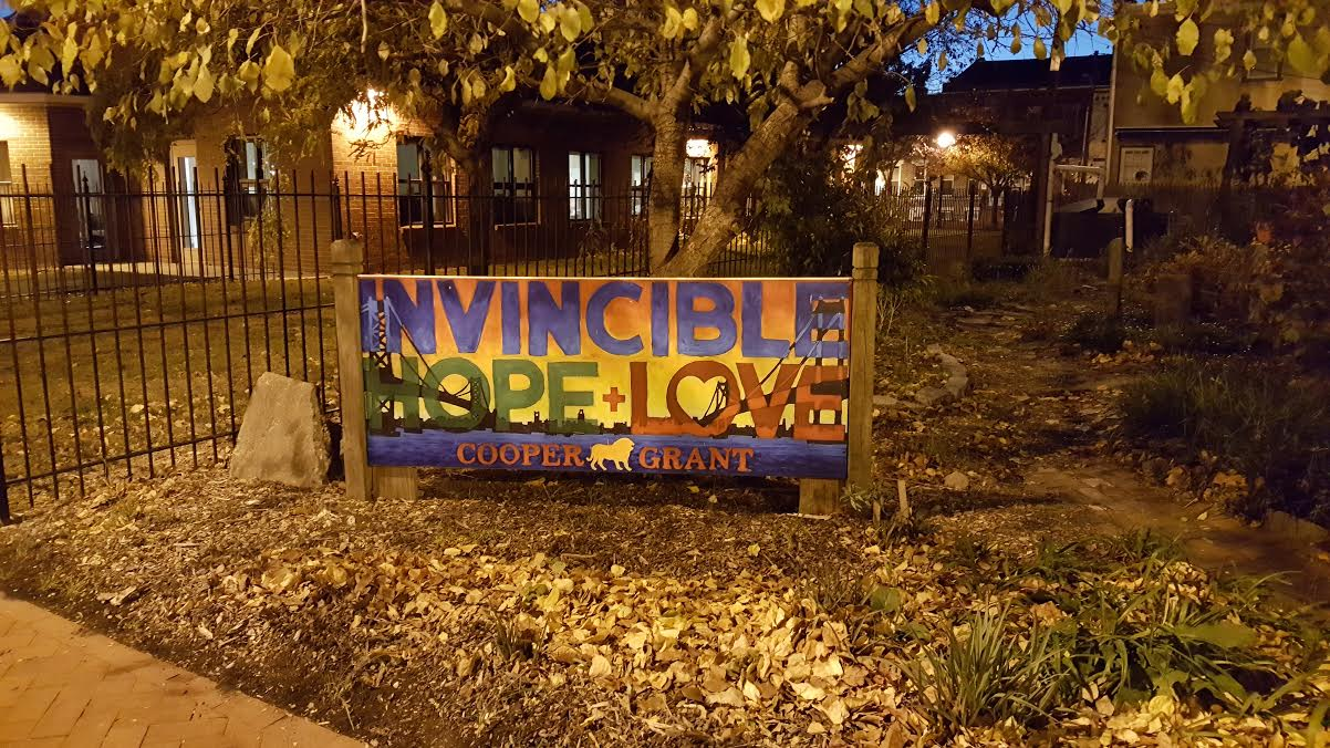 Picture of a community sign near Camden's cooper grant neighborhood